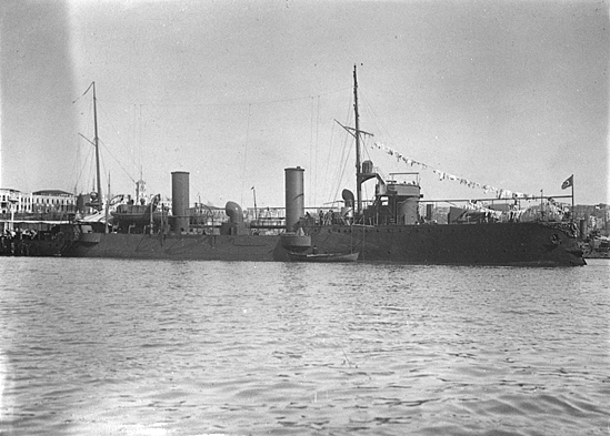 Torpedo cruiser Peyk-i Şevket.